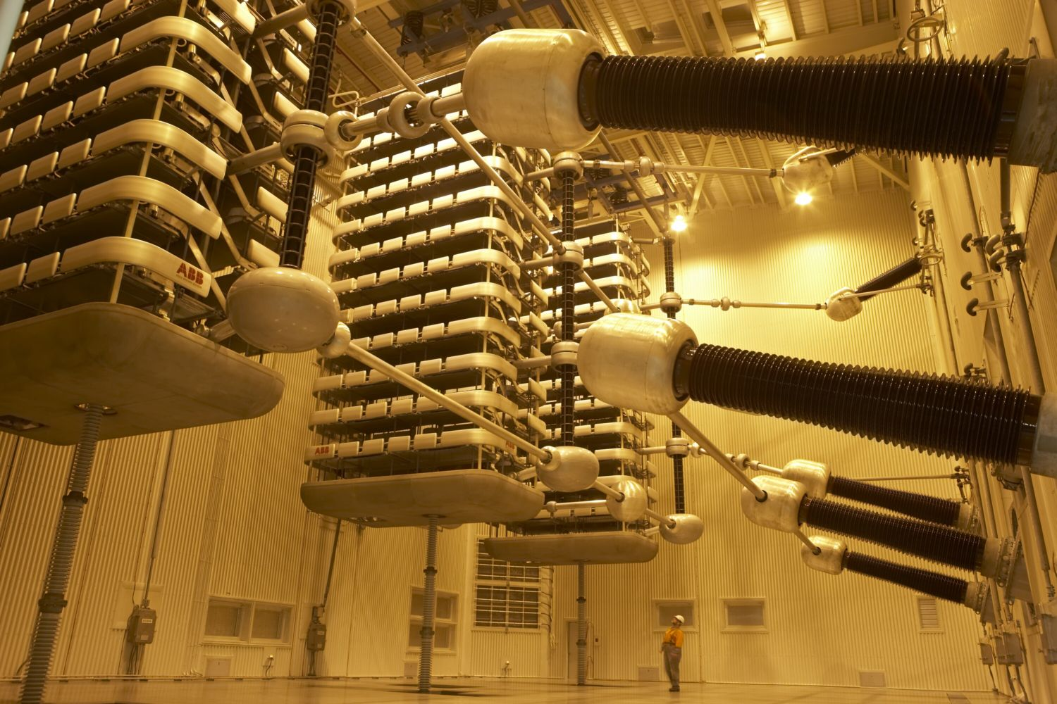 HVDC Pole 2 thyristor valve hall at Haywards in the New Zealand HVDC Inter-Island scheme, during a maintenance shutdown